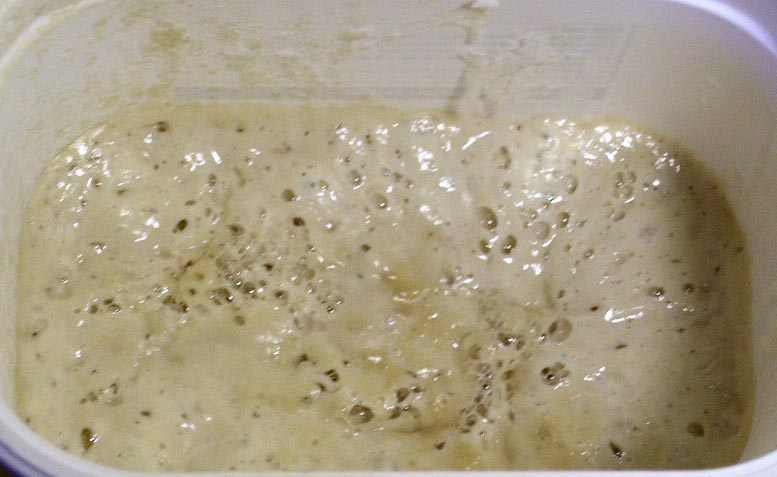 A sourdough starter fermenting.